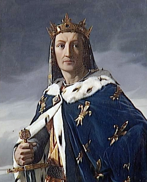 Portraits of Kings of France is a serie of portraits commissioned between 1837 and 1838 by Louis Philippe I and painted by various artists for the Musée historique de Versailles.